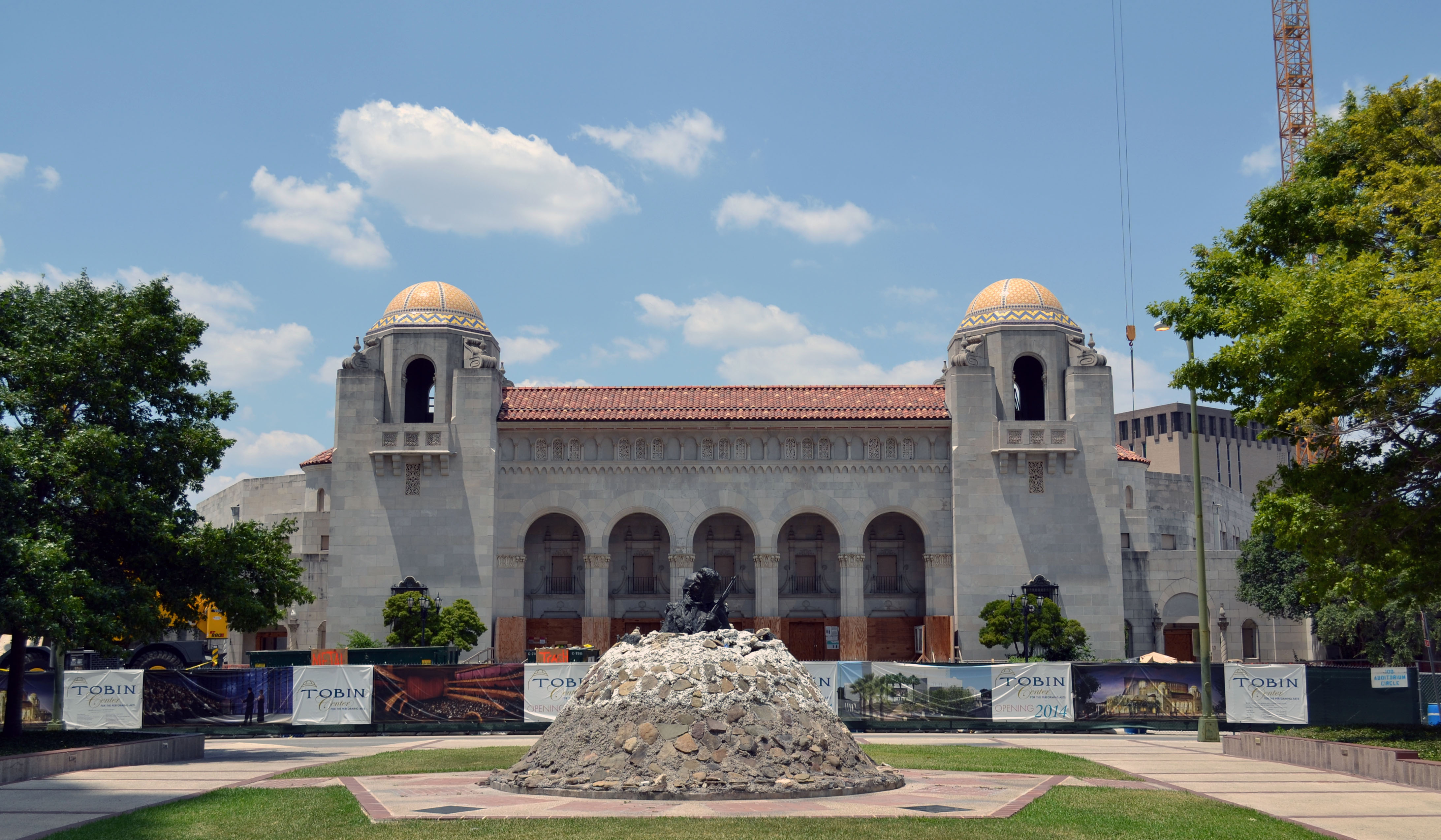 Municipal Auditorium during remodeling, San Antonio, Texas. Listed on the National Register of Historic Places. Architect Atlee Ayers and Associates